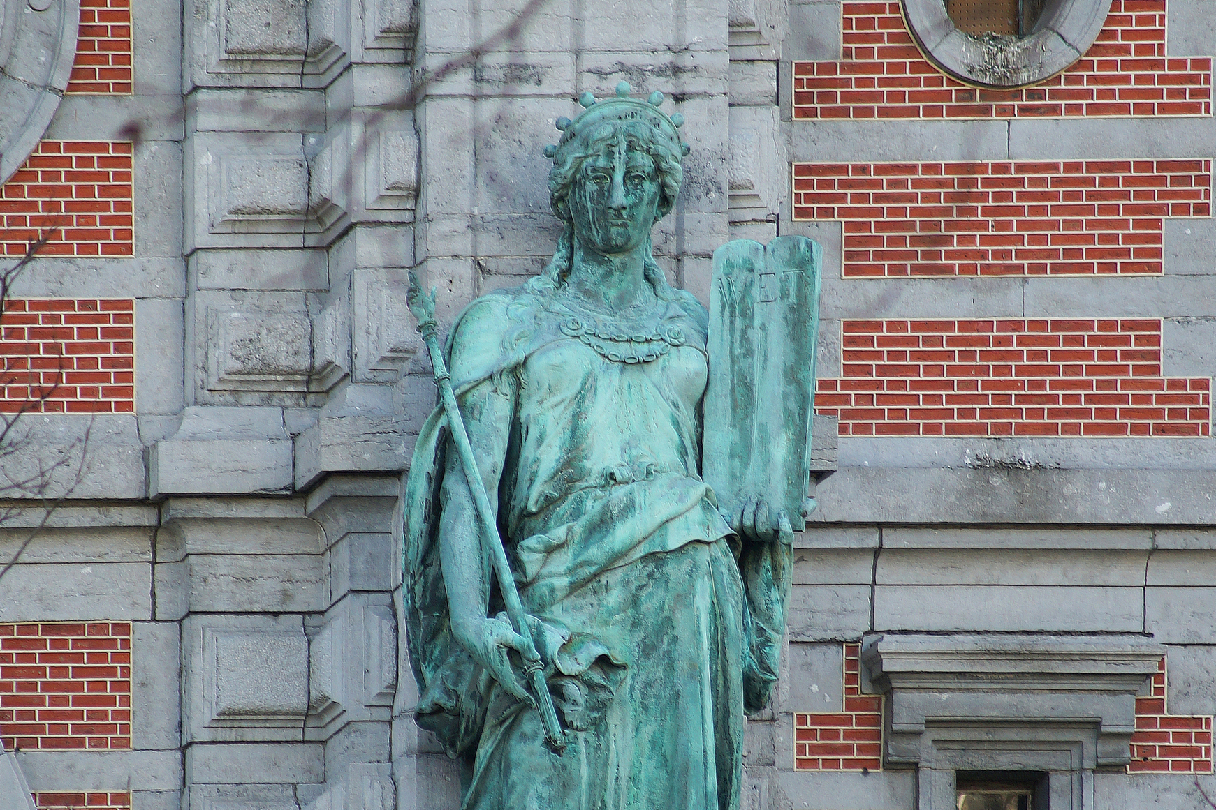 Statue 'THE LAW' by Frans Deckers (anno 1886) at the entrance of the Justice Palace 'Britselei' in Antwerp.